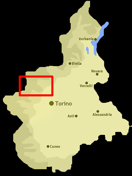 Lanzo Valleys position within Piedmont (NW Italy)